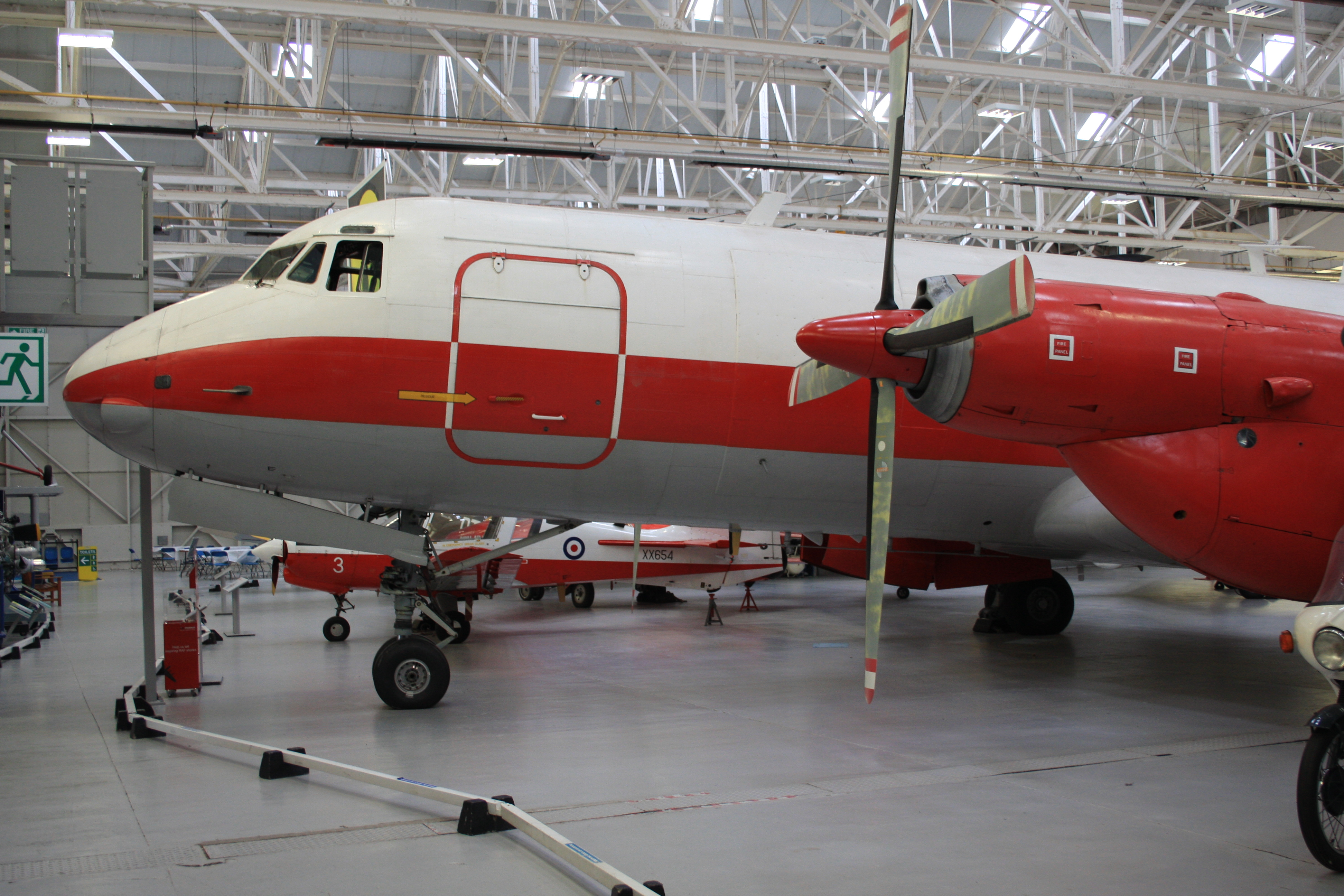 RAF Cosford Aerospace Museum (EGWC) UK - England, August 5 2014.